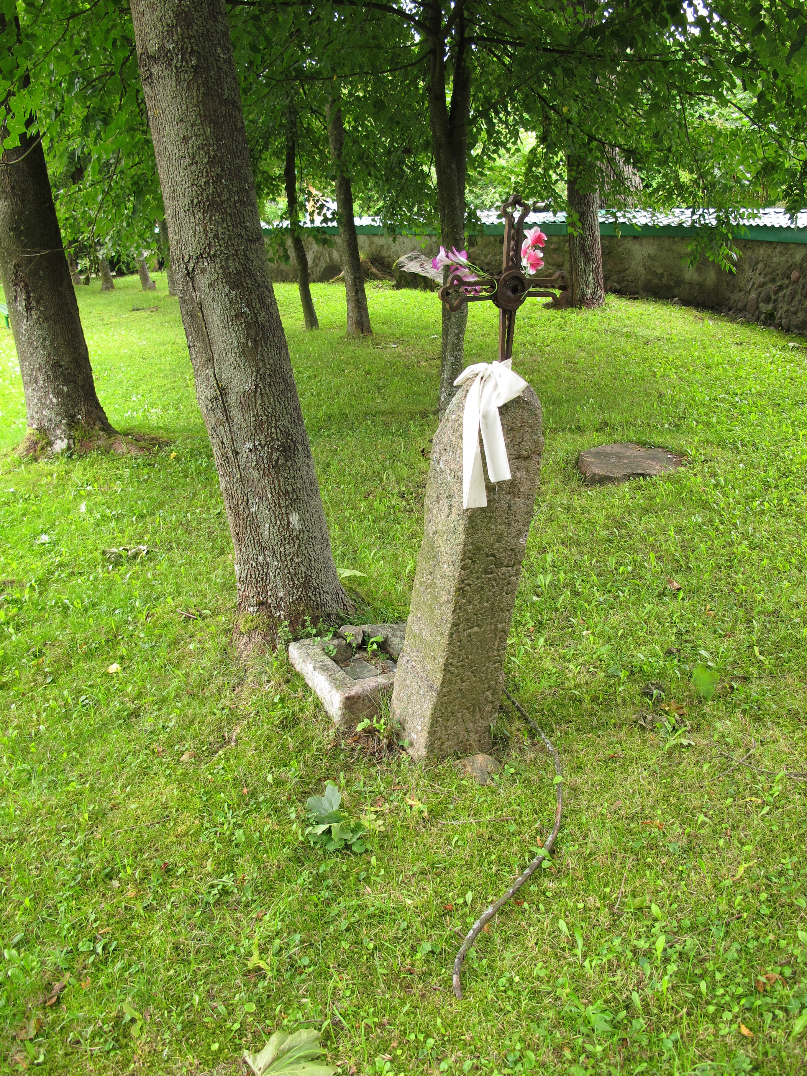 Monument by Saints Cosmas and Damian orthodox church in the Ryboły village, gmina Zabłudów, podlaskie, Poland